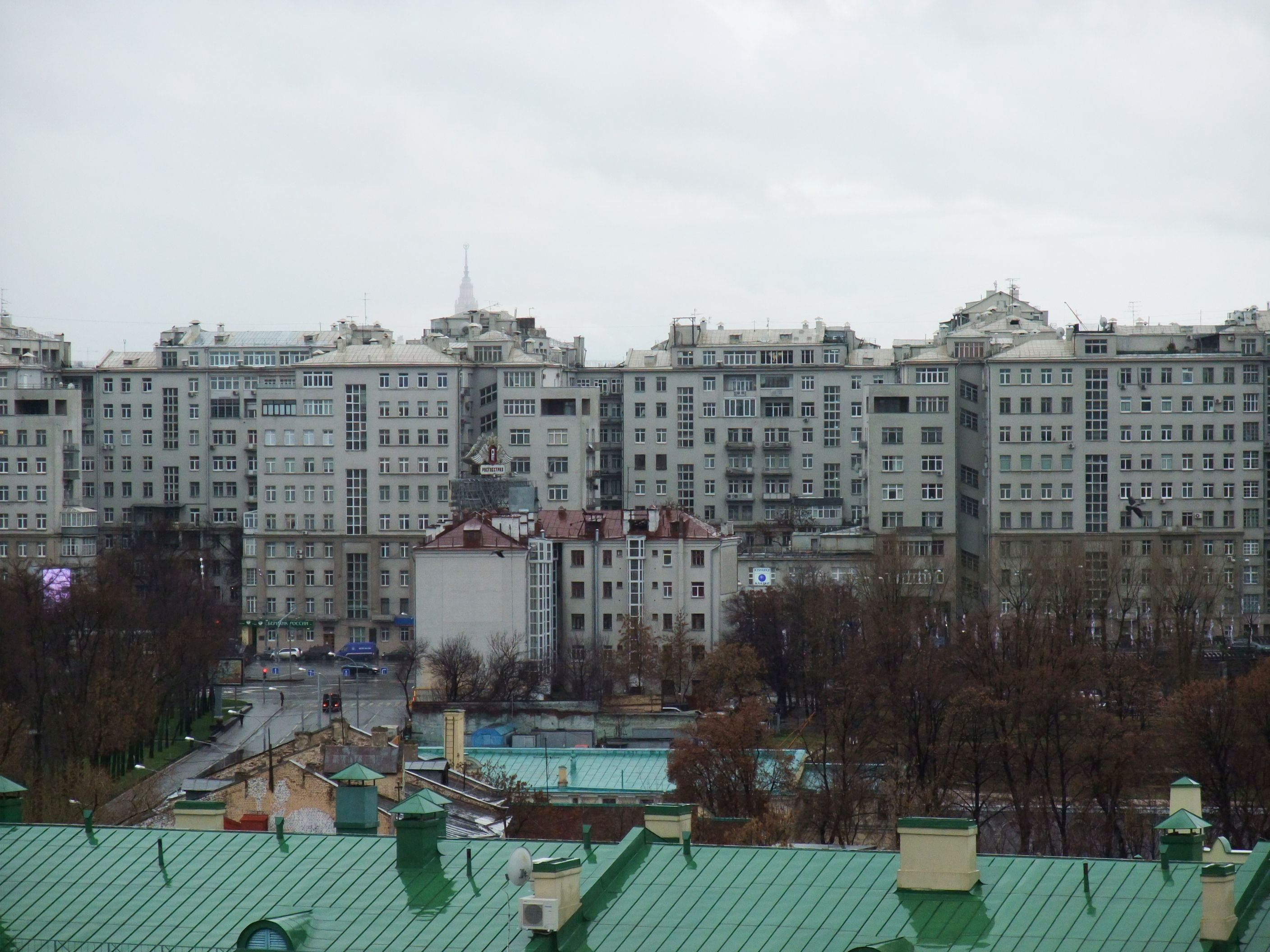 Улица Серафимовича Москва